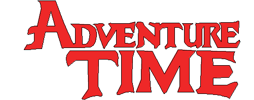 Adventure Time vectorized logo